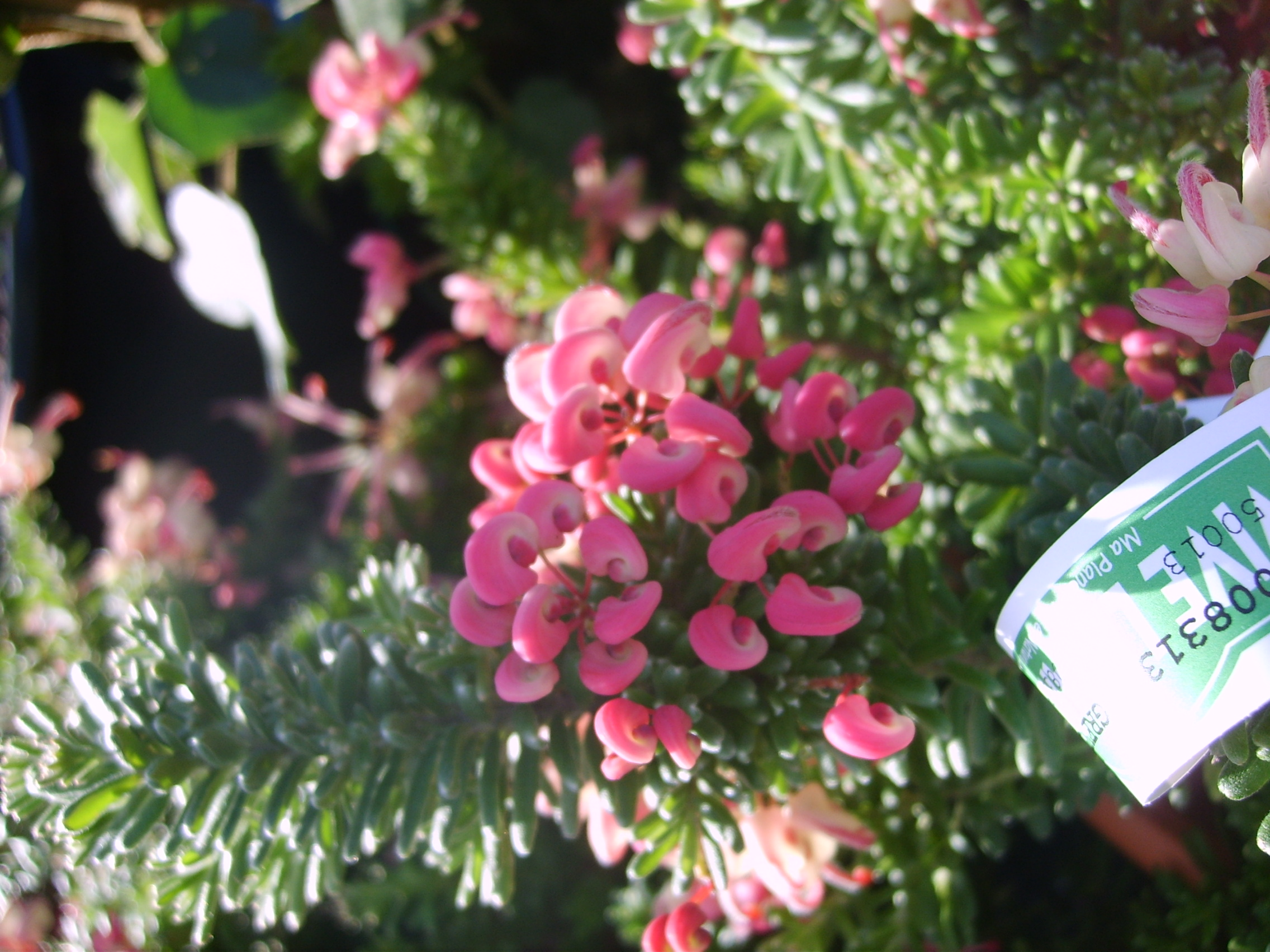 Grevillea lanigera mount tamboritha2